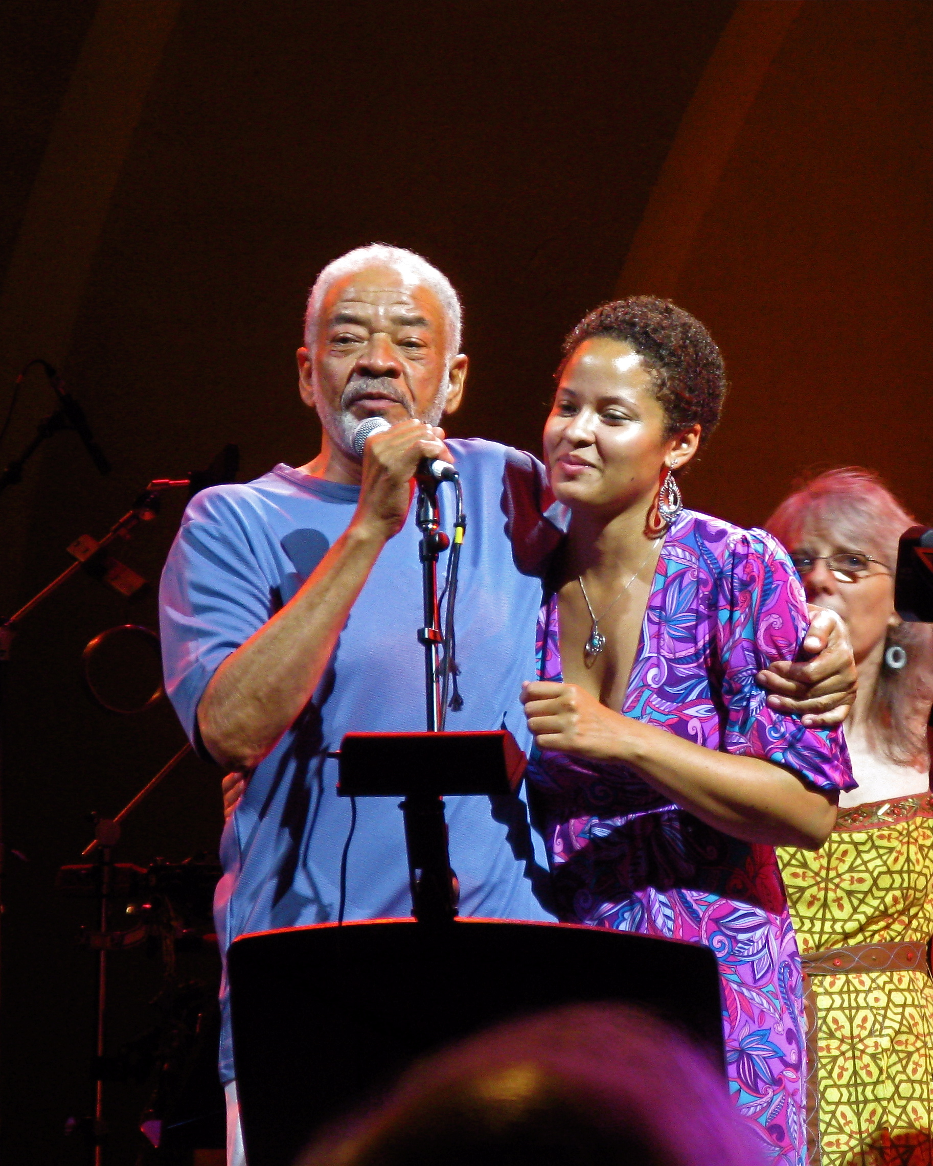 Bill Withers Tribute: Bill Withers & Corey Withers